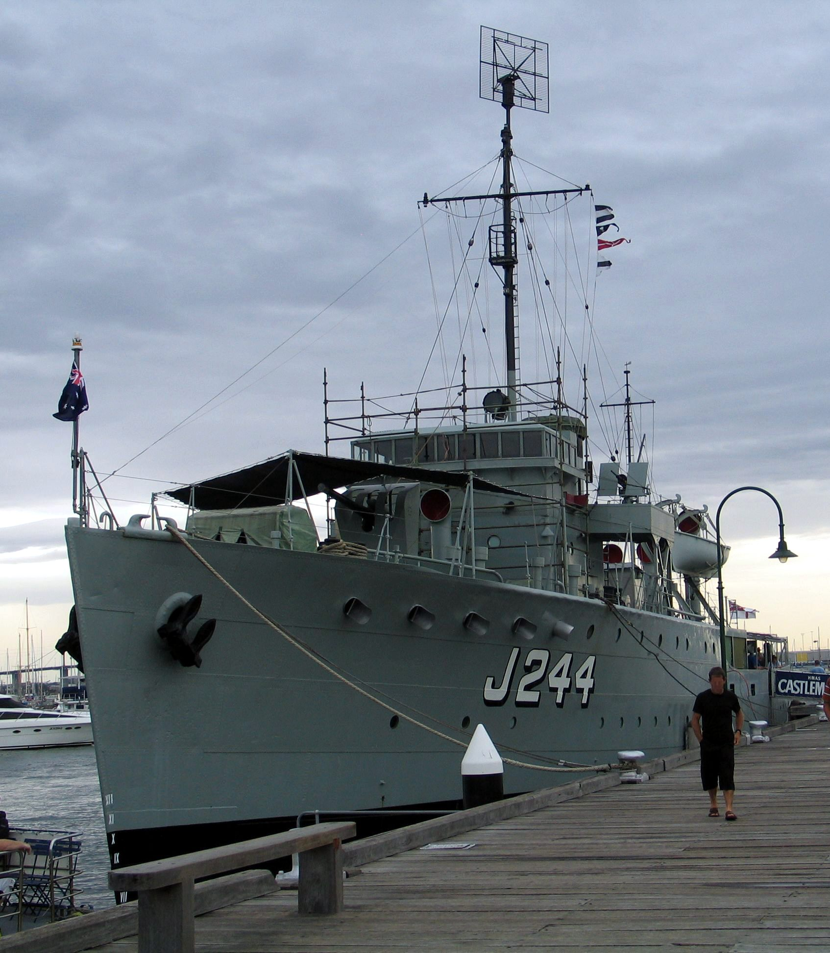 HMAS Castlemaine Bathurst-class corvette, berthed at Gem Pier, Wiliamstown, Victoria, Australia.